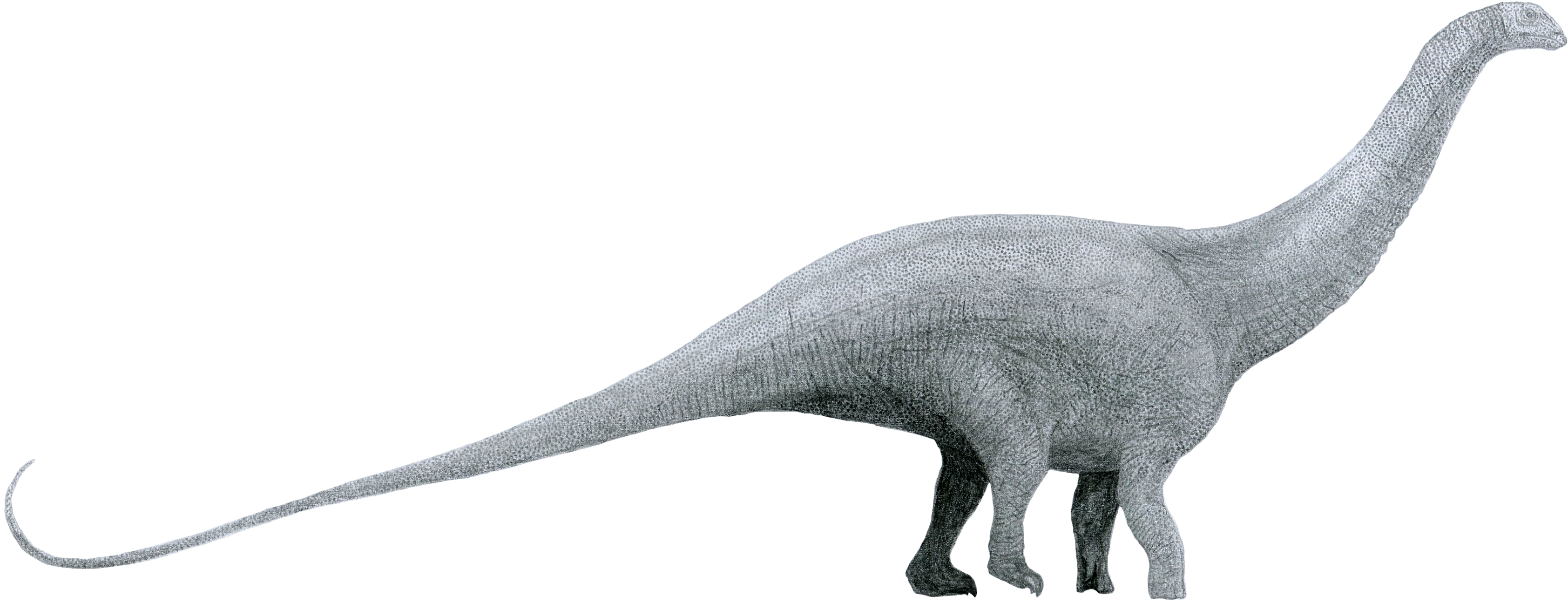 Reconstruction of Brontosaurus excelsus.